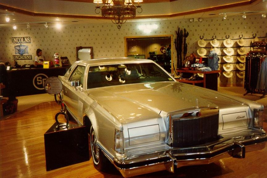 Jock Ewing's Lincoln Continental Mark V from 2004 (year of the photo, NOT the model year of the vehicle).